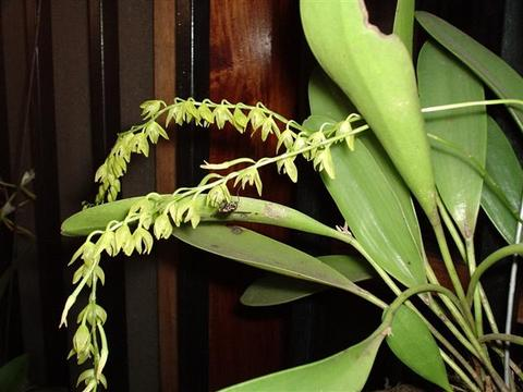 A work released per the GNU Free Documentation License by: Martín Javier Battiti de Tegucigalpa, Honduras